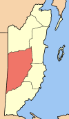 Cayo District, Belize